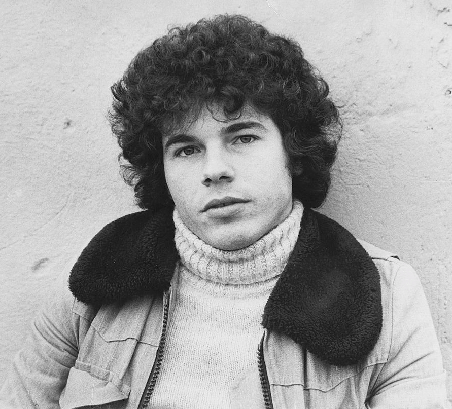 Portrait of Italian singer, songwriter and musician Riccardo Cocciante wearing a polo neck. Rome, 1975.